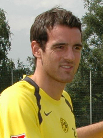 A photo of Christoph Metzelder